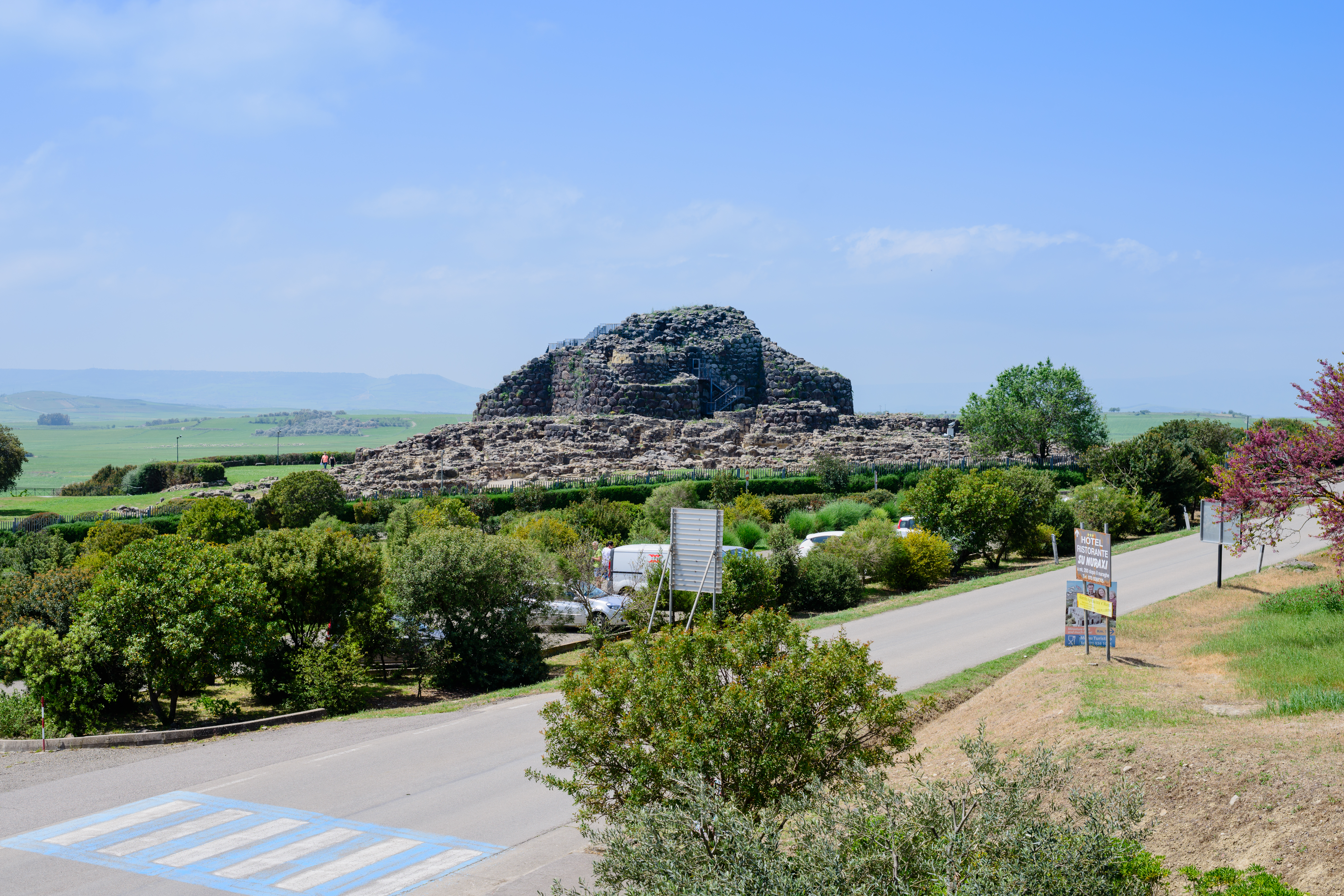 Su Nuraxi is a nuragic archaeological site in Barumini, Sardinia, Italy. The complex is centred around a three-storey tower built around the 16th century BC.